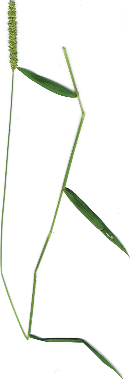 Sacciolepis indica (plant). Location: Maui, Hana Hwy